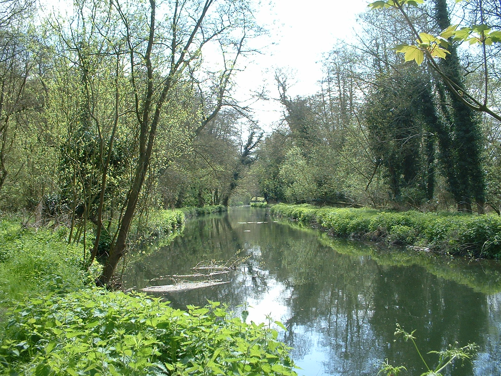 Near other fortifications. Just north of Waverley Mill Bridge. On nature reserve, accessible. OS reference SU869457 Photographed on 01-May-06.